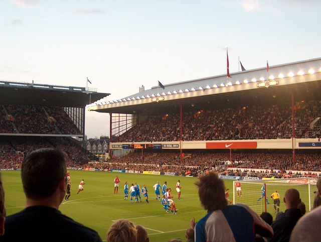 Goalmouth action at Highbury This was the match when Arsenal went 50 games unbeaten, and they had just started playing this young lad Fabregas.